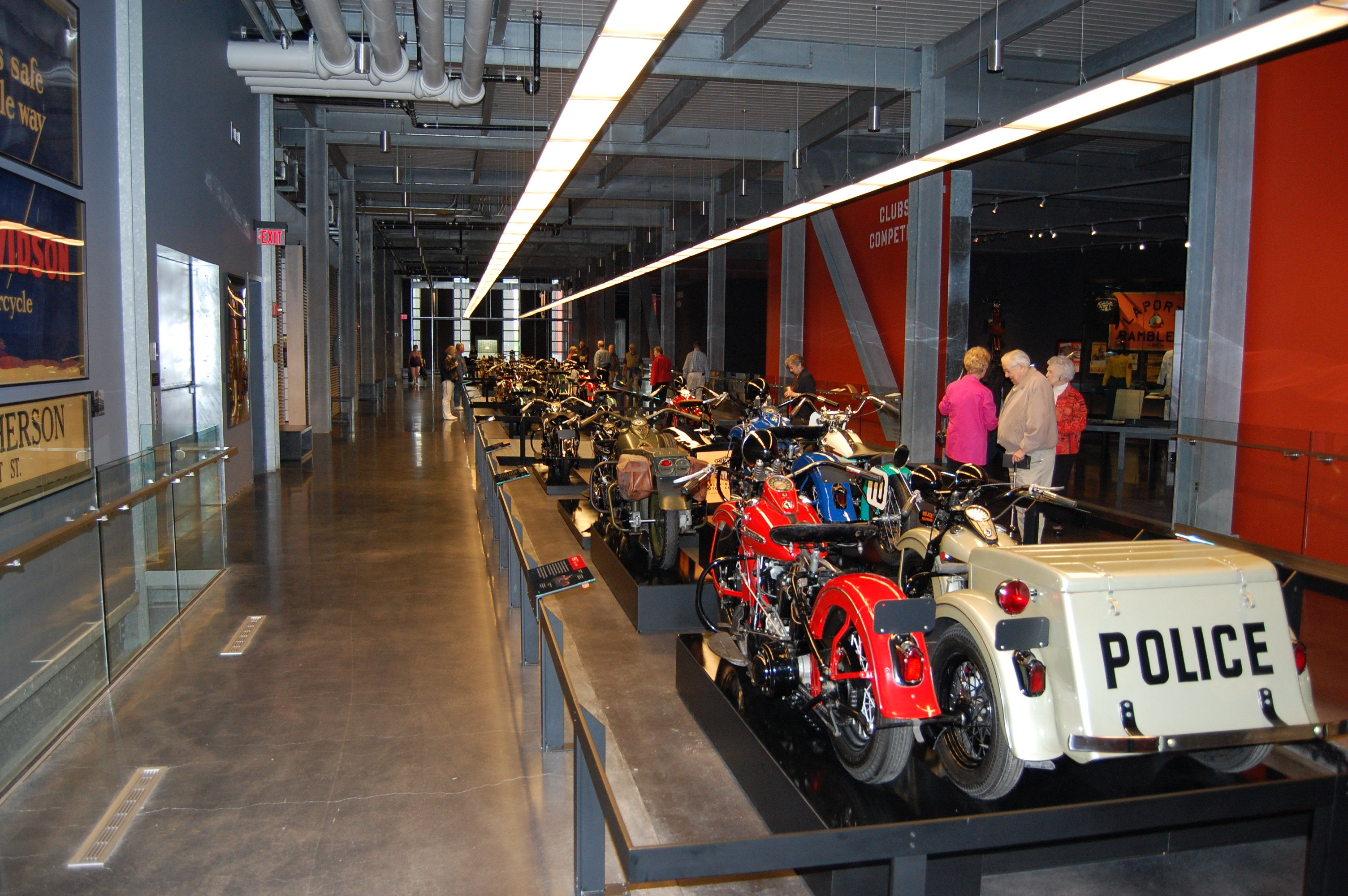 Harley-Davidson motorcycle exhibit at the Harley-Davidson Museum in Milwaukee, WI.